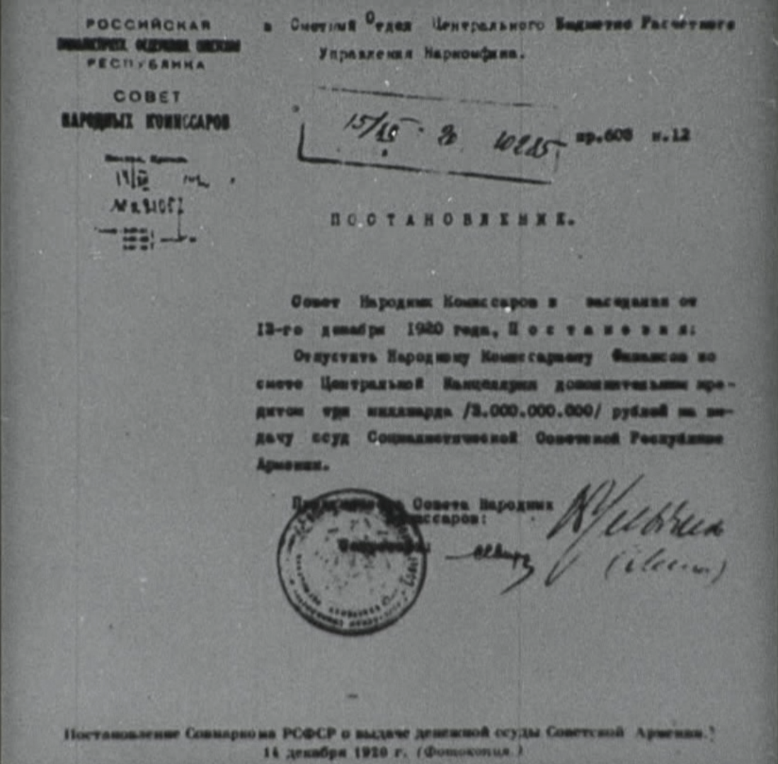 Lenin Decree to provide 3 billion rubles to Soviet Armenia, 1920